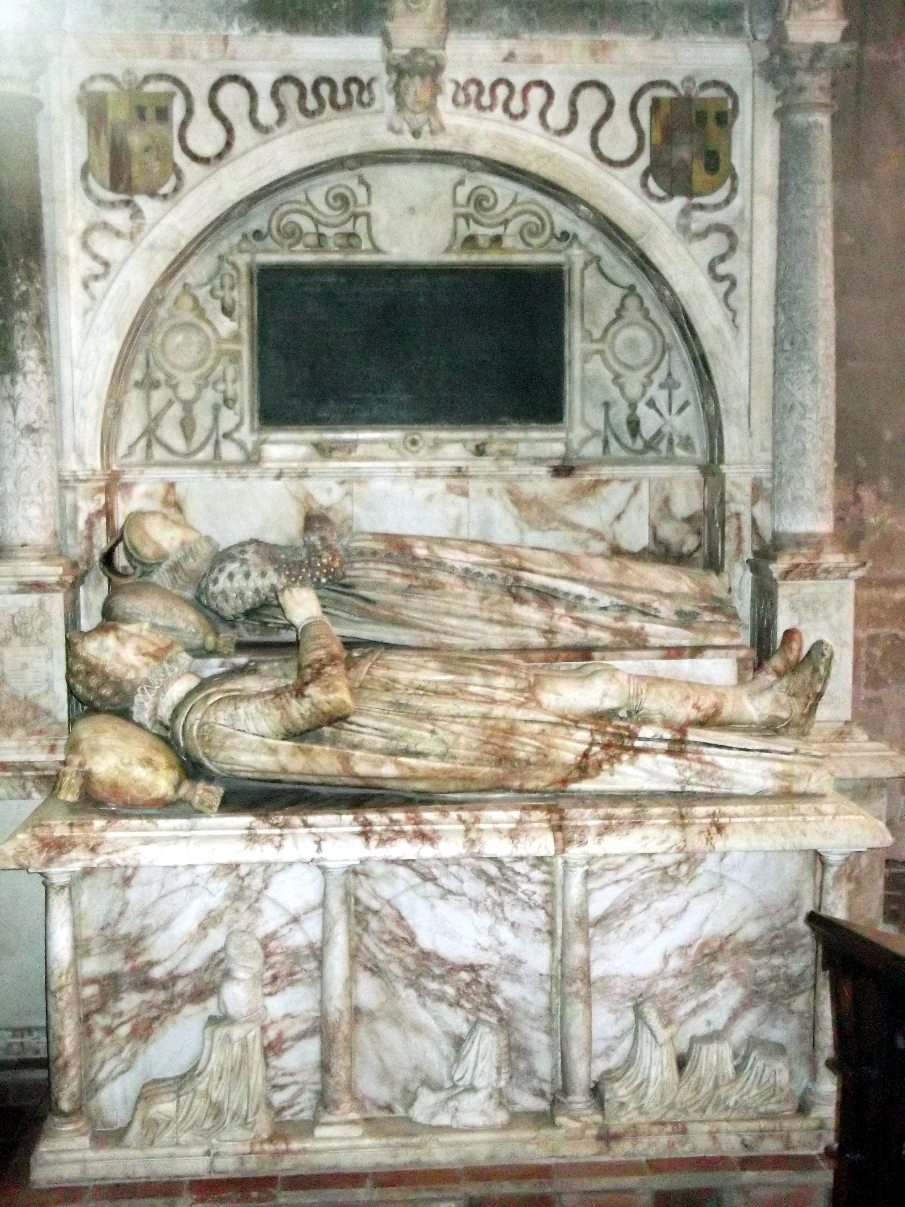 St Peter the Apostle, Worfield, Shropshire. Tomb of George Bromley, a notable judge of the Tudor period and Joan Waverton of Hallon.